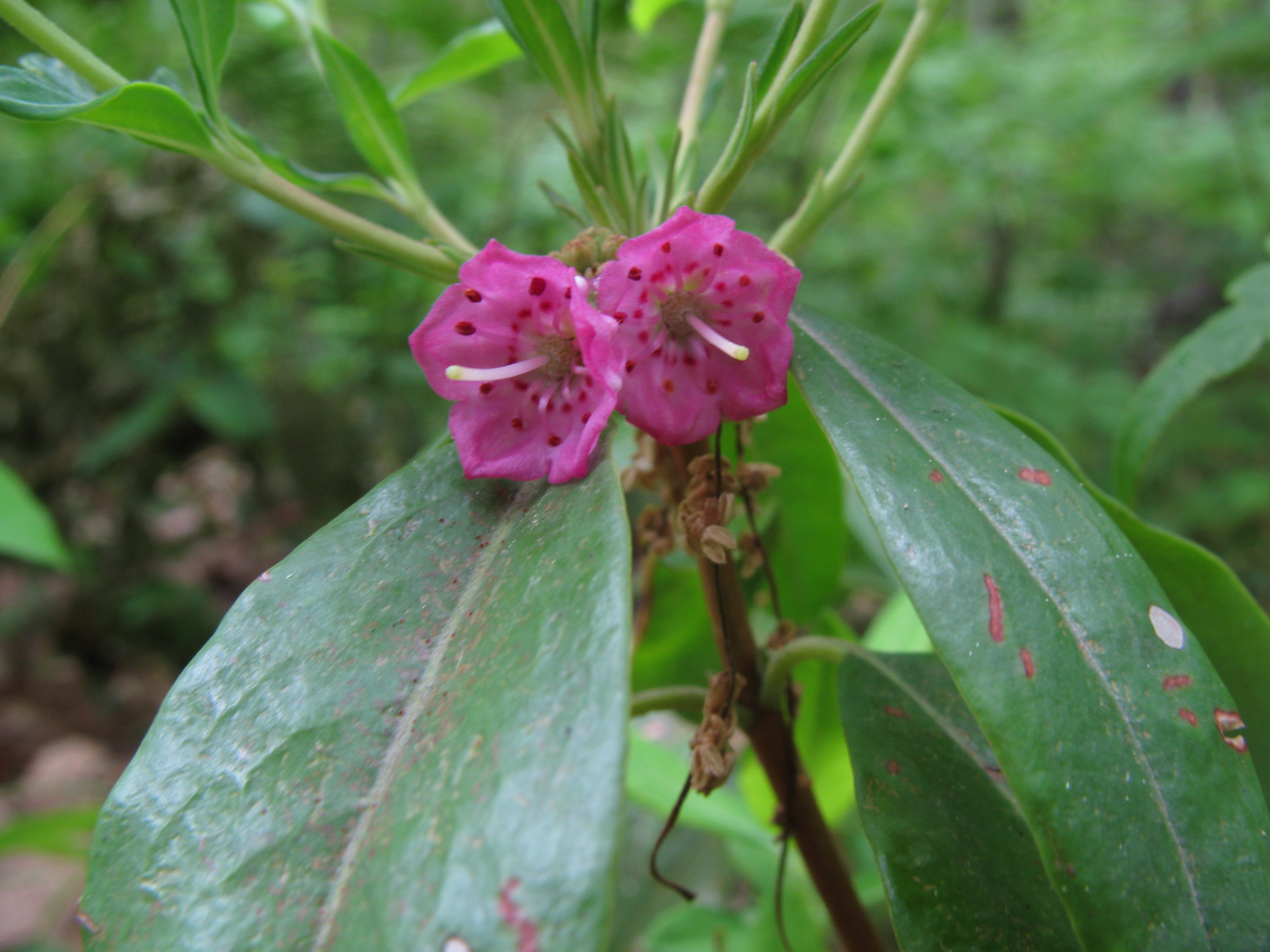 Kalmia angustifolia subsp. angustifolia flowers.